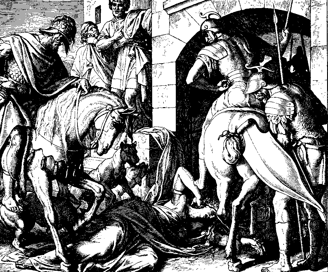 Woodcut for "Die Bibel in Bildern", 1860.